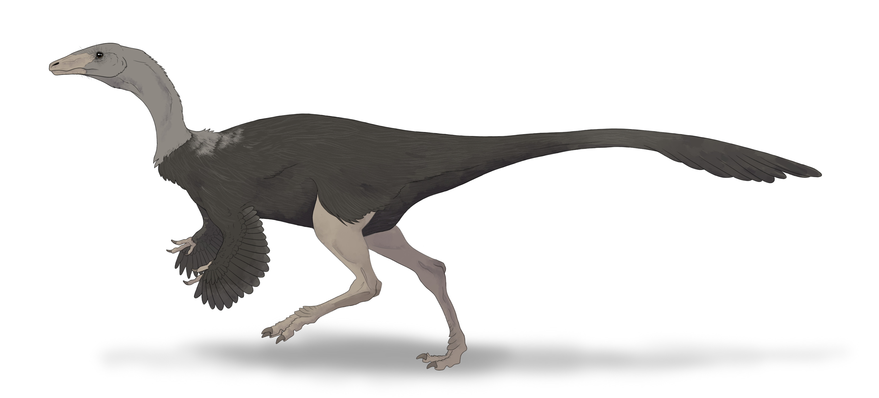 A reconstruction of Archaeornithomimus asiaticus based on skeletal casts and related species